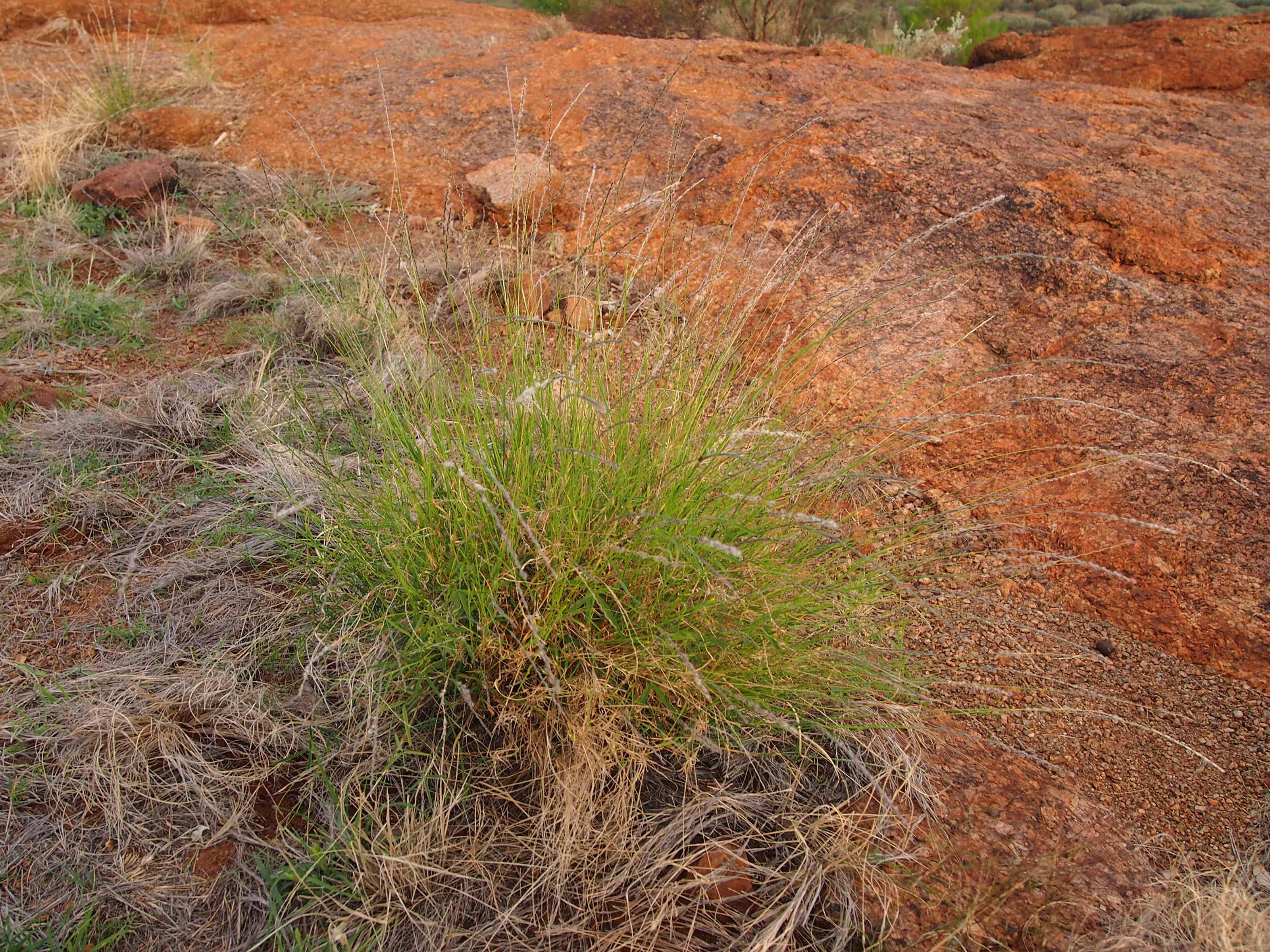 Digitaria brownii habit